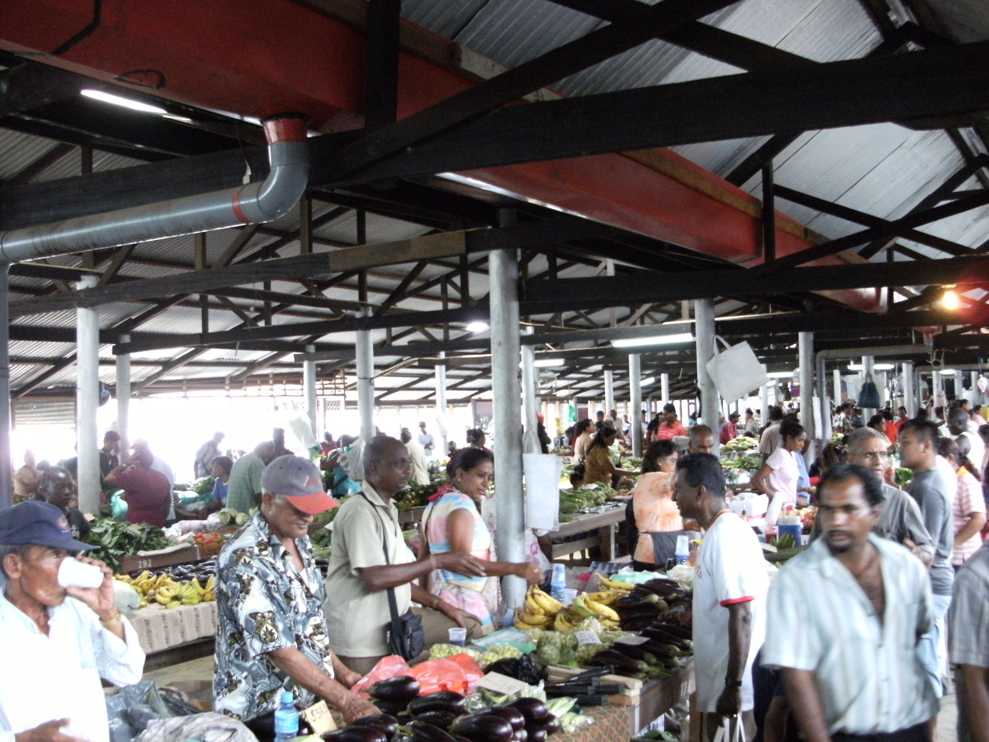 Market in Lelydorp, Suriname.